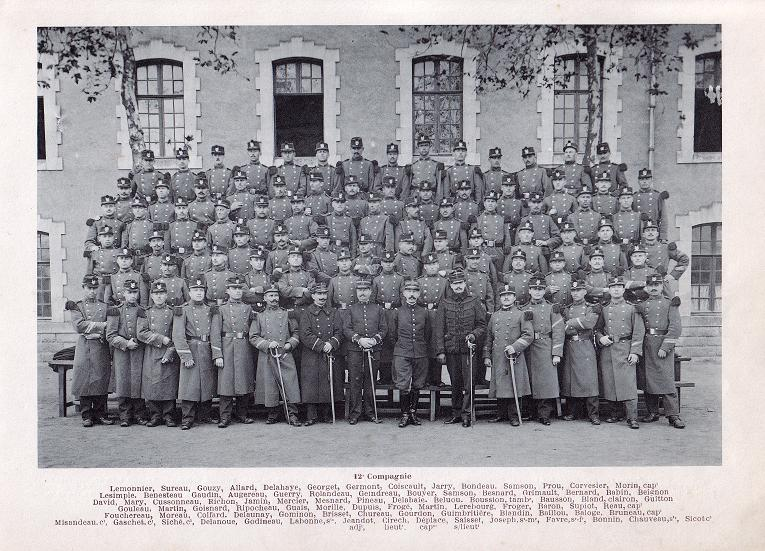 12th Company of the french 77th Infantry Regiment in 1905